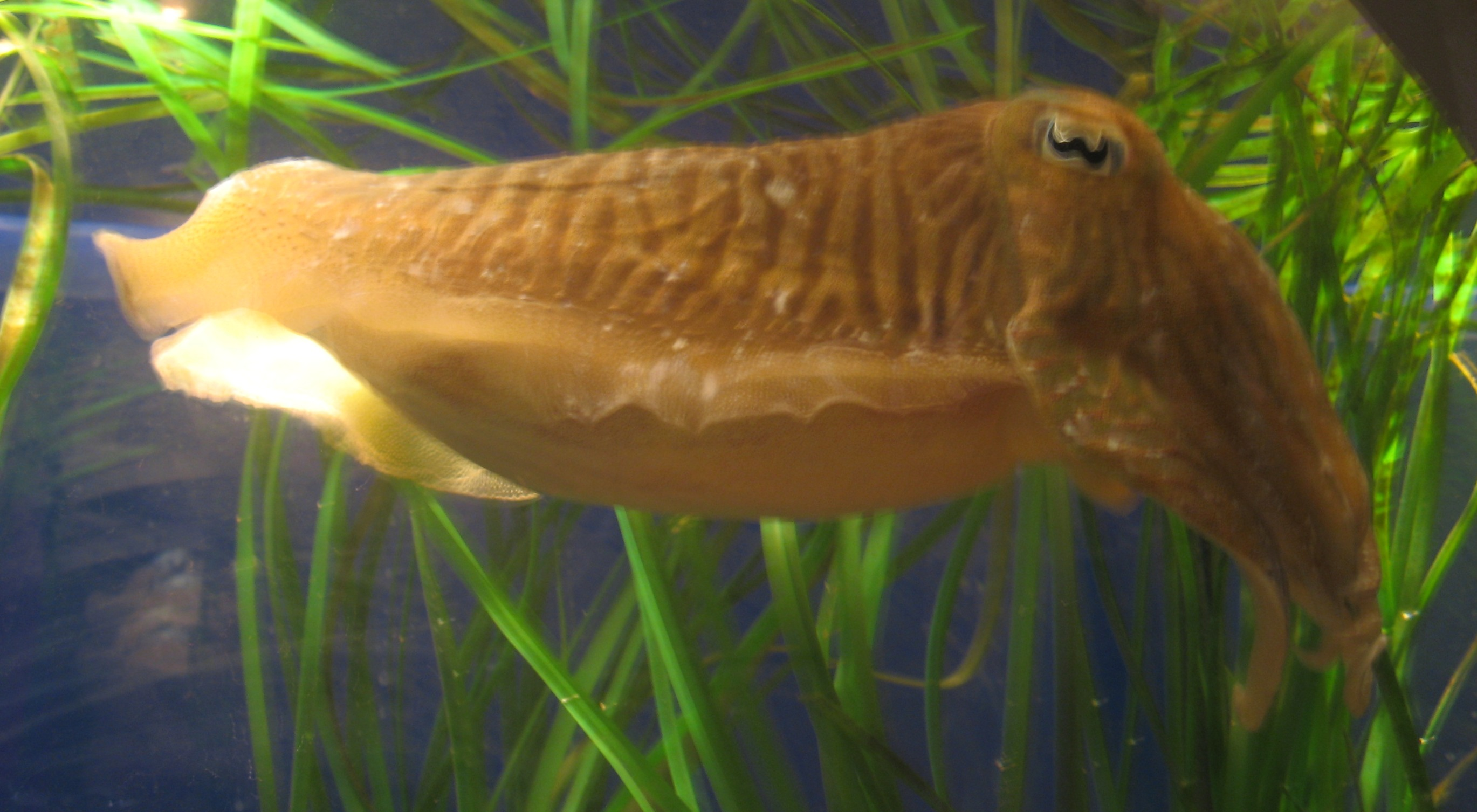 Sepia officinalis in Nausicaä Centre National de la Mer